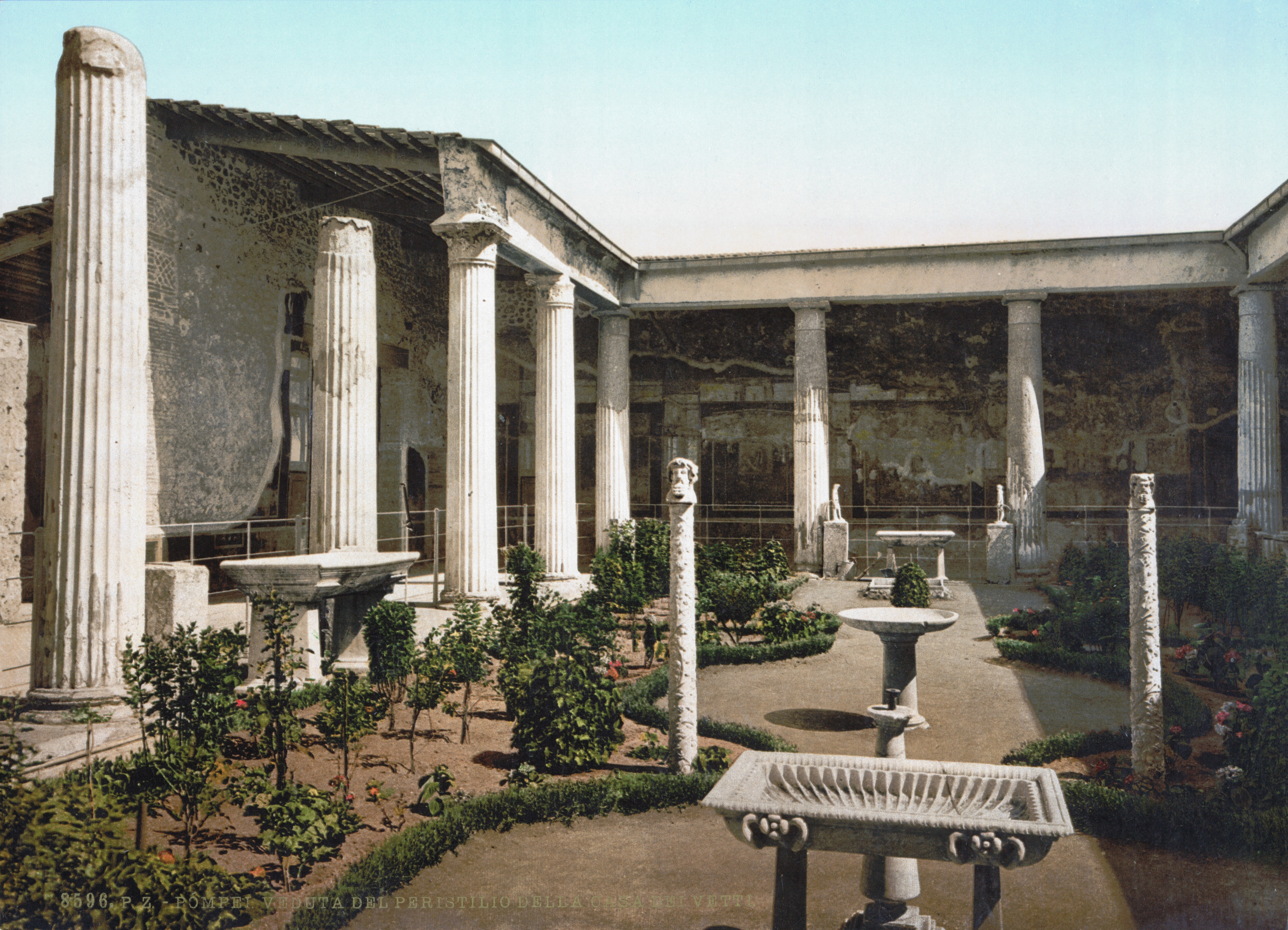 "Photochrom Zuerich", n. 8596, Pompeji - Peristyle of the House of the Vettii immediately after restoration (ca. 1900).